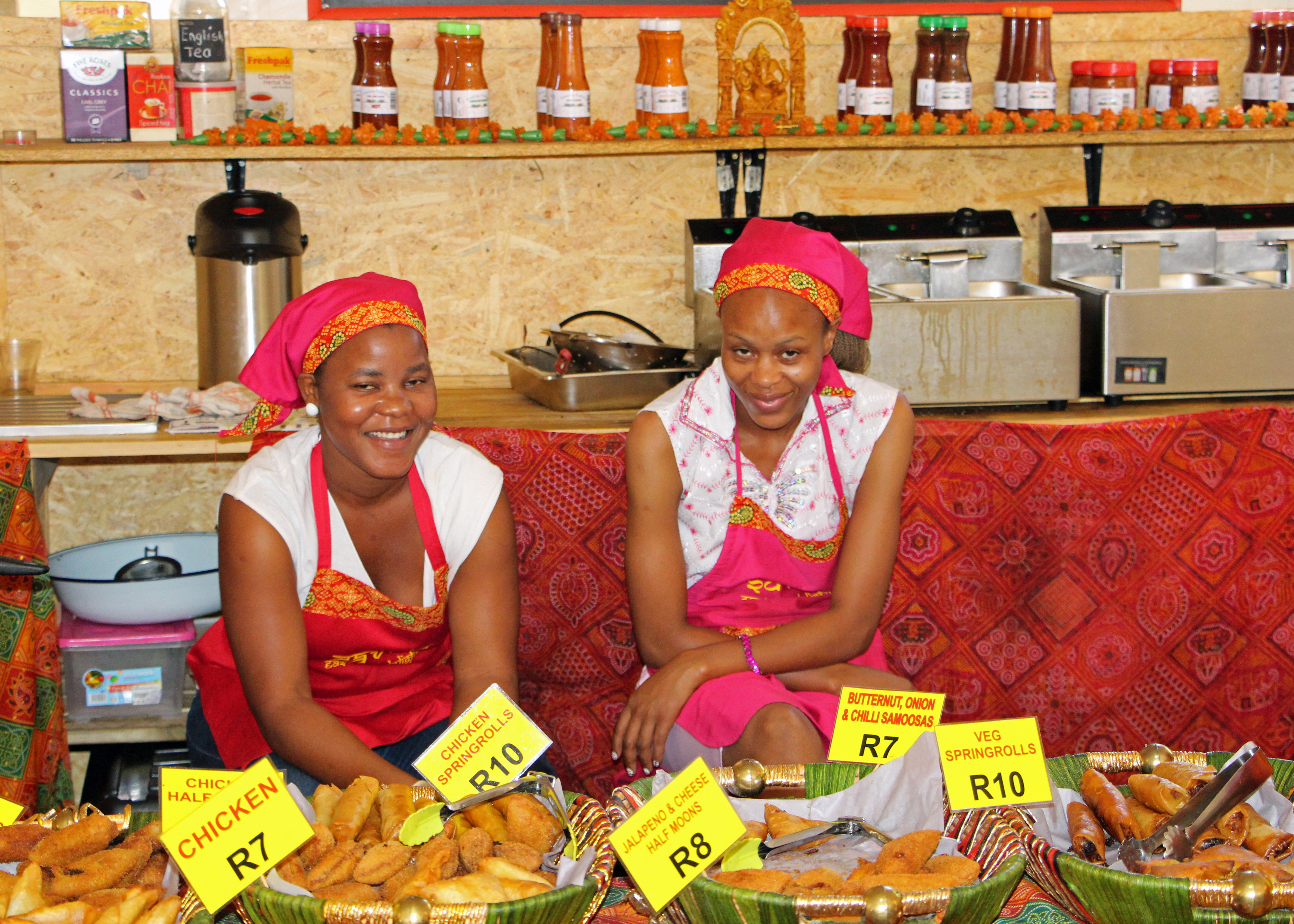 Saville's Eastern Delights stall at Root44 Market, Stellenbosch, South Africa